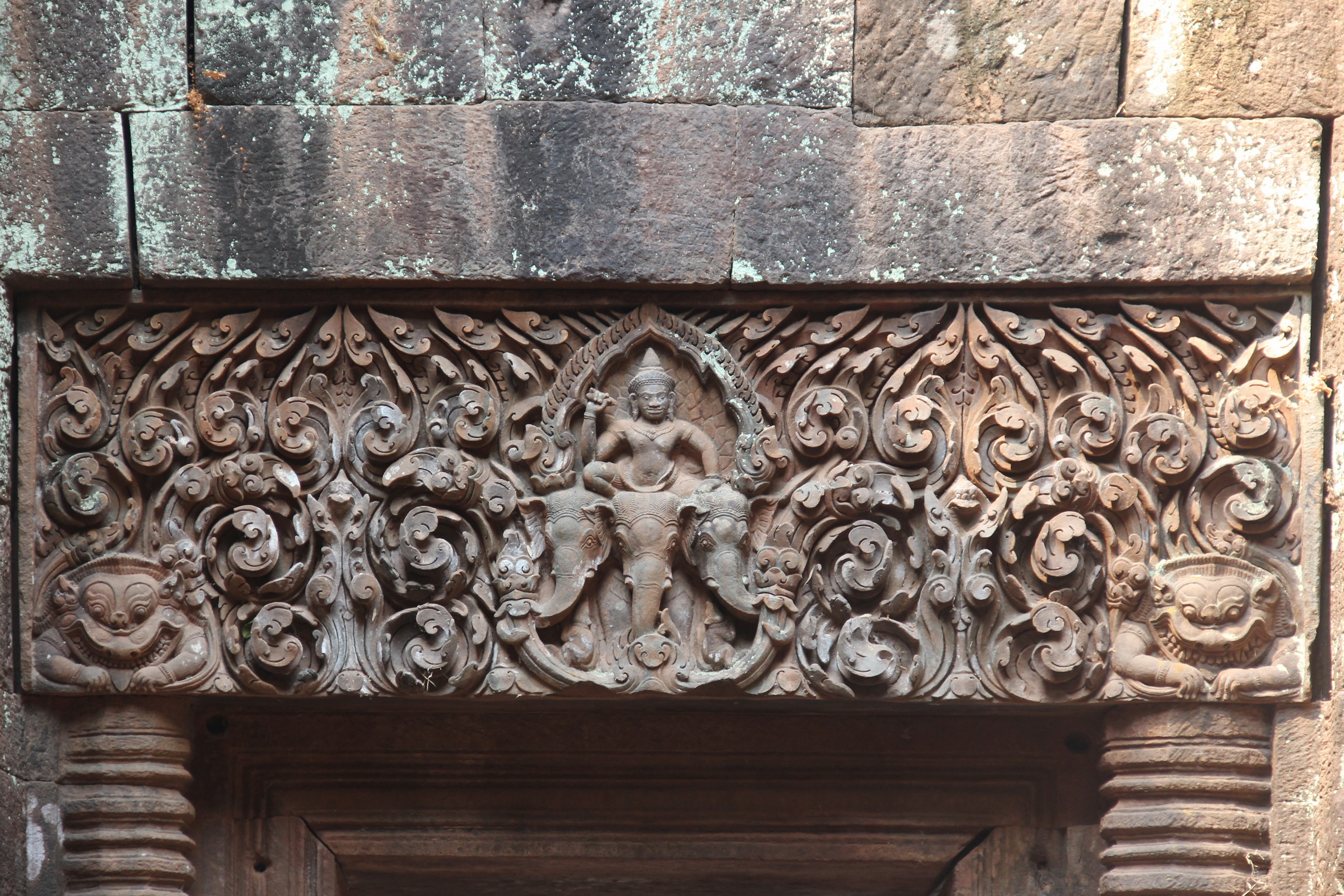 The Sanctuary, Wat Poo, Champasak, Laos ຜາສາດຫີນວັດພູ, ຈຳປາສັກ, ປະເທດລາວ